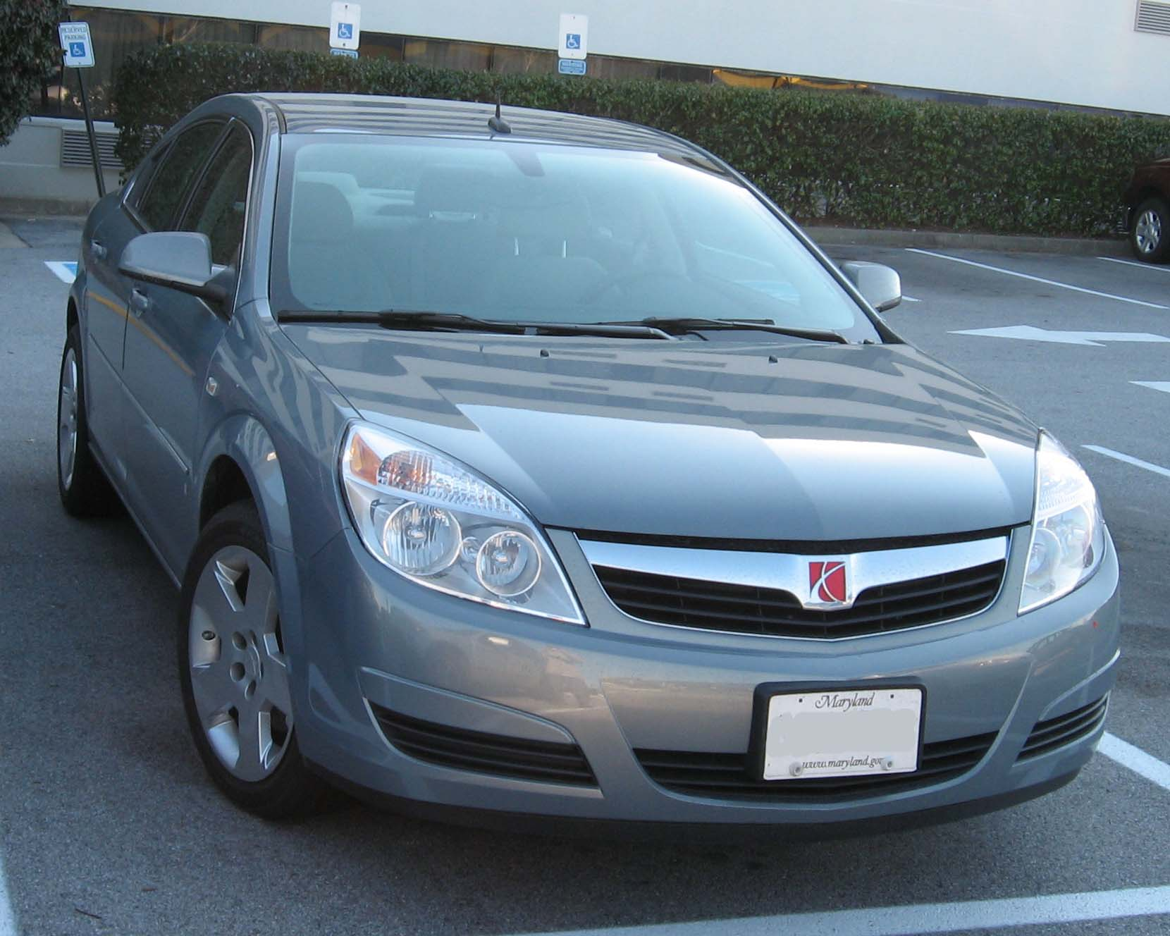 2007 Saturn Aura photographed in USA.